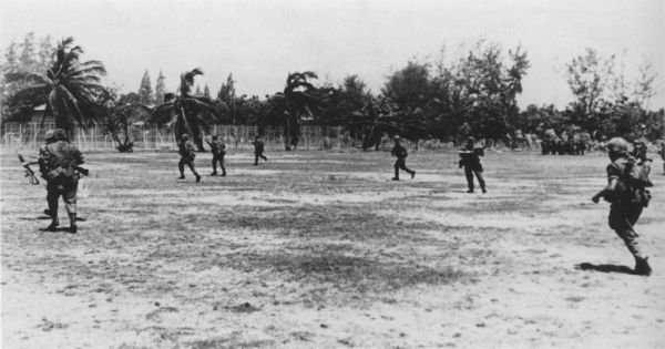 Marines deploy to the perimeter of LZ Hotel